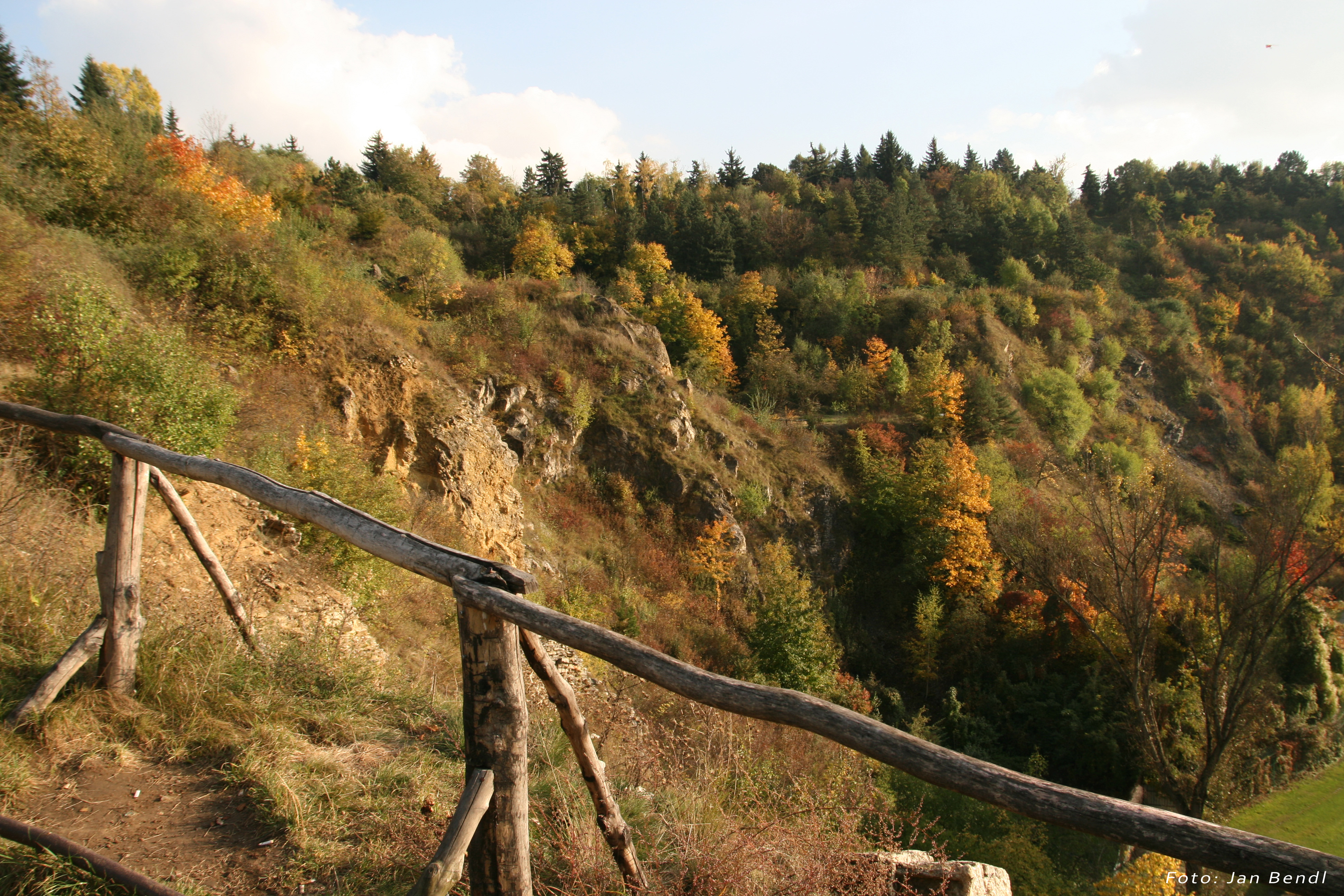 Natural monument Podolský profil in Prague, Czech Republic